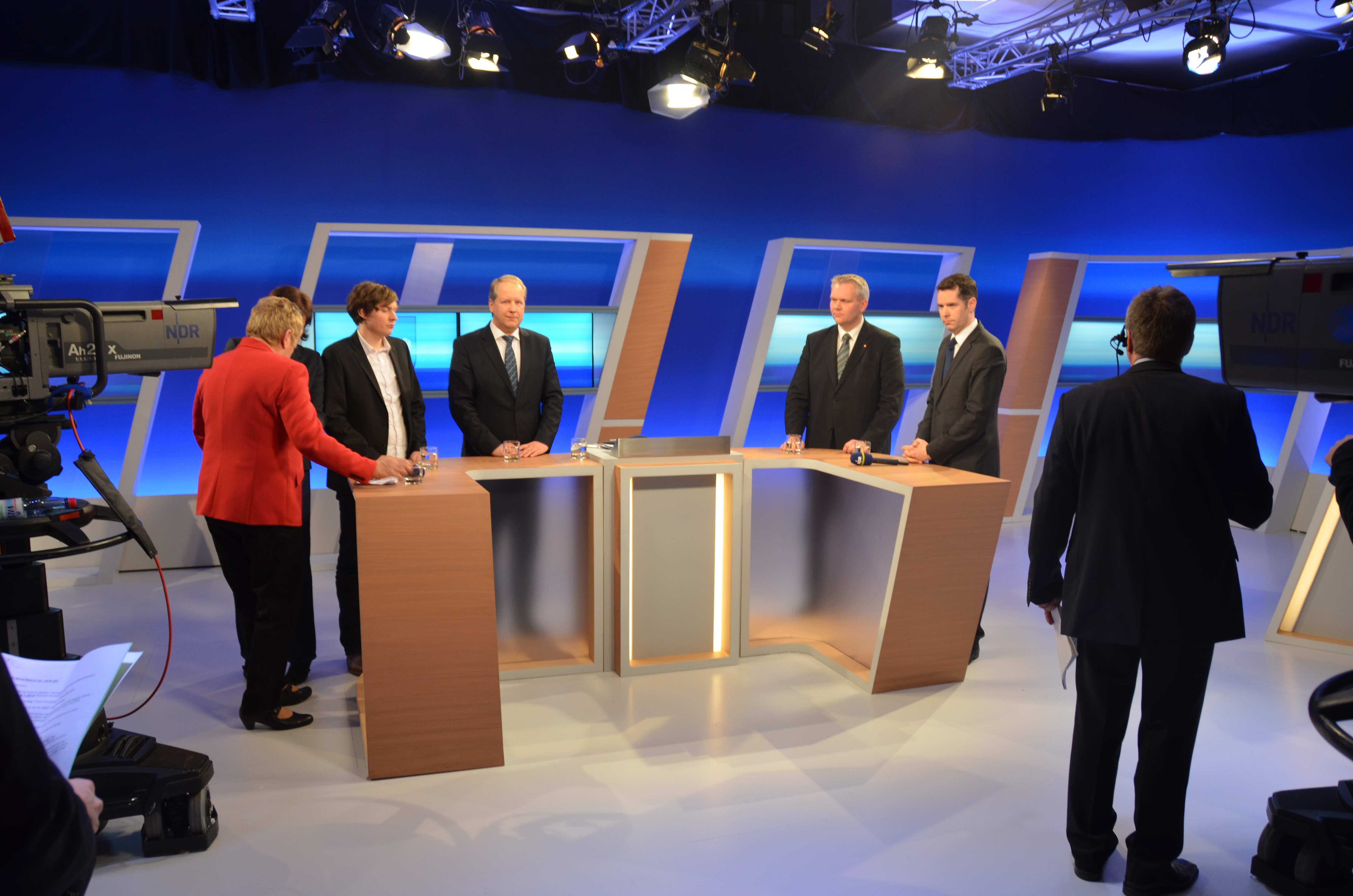 Wikipedia im Landtag – Niedersachsen 20. Januar 2013 in Hannover am WahlabendDieses Bild entstand während der Landtagswahl in Niedersachsen 2013 im Landtag Hannover. This work is free and may be used by anyone for any purpose. If you wish to use this content, you do not need to request permission as long as you follow any licensing requirements mentioned on this page.